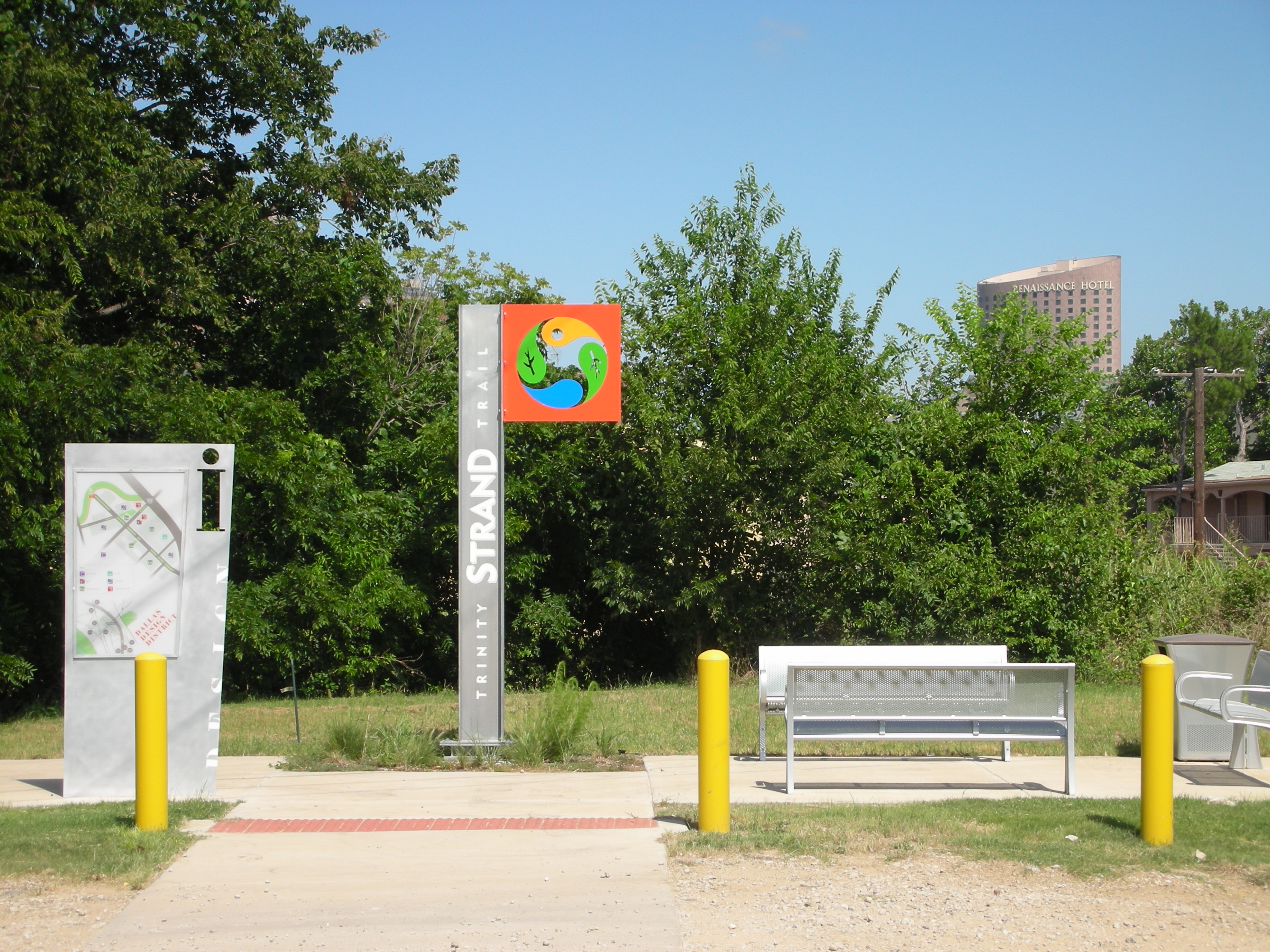 Trinity Strand Trail Hi Line Trailhead